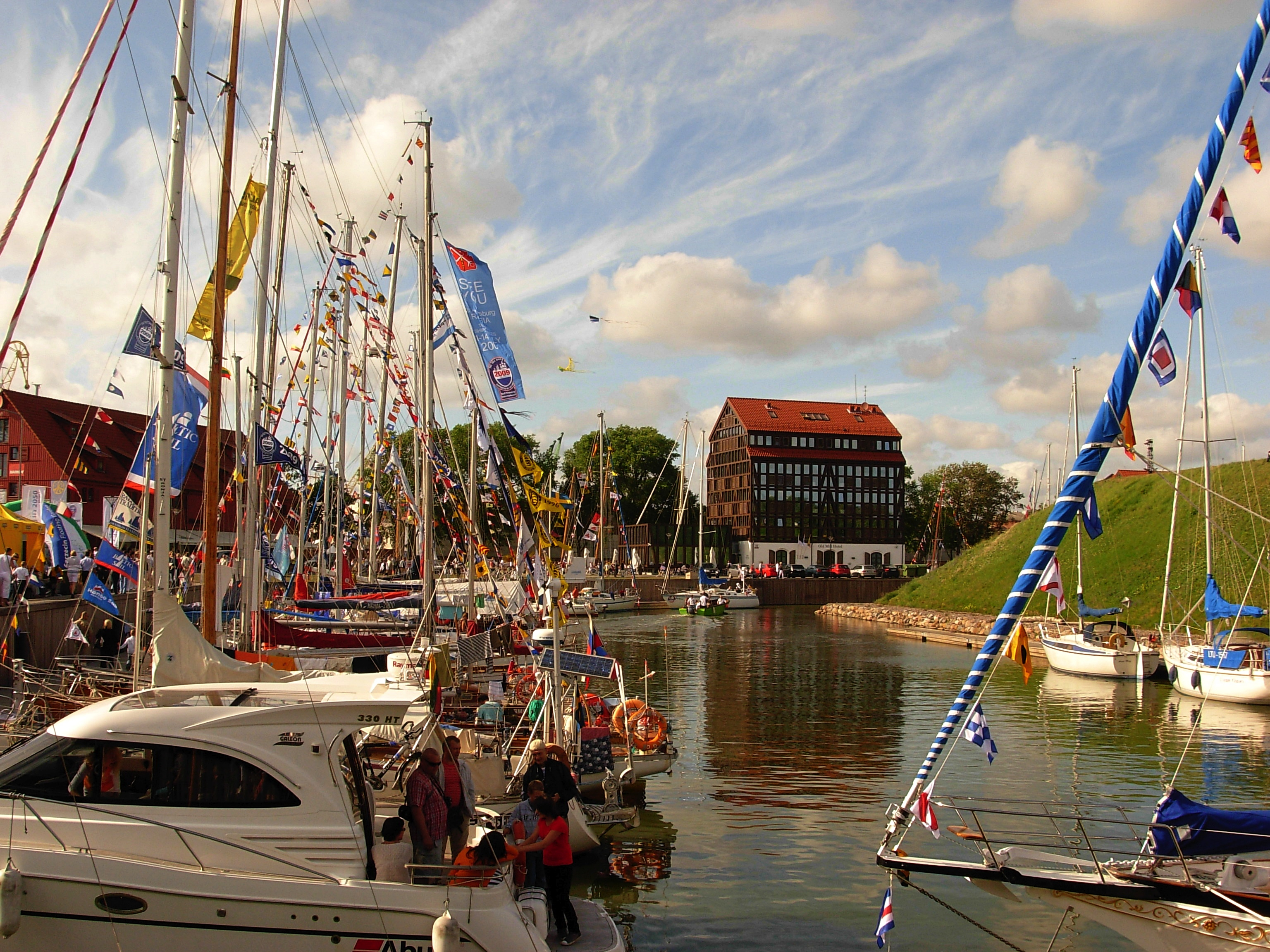 Castle port in Klaipėda, Lithuania